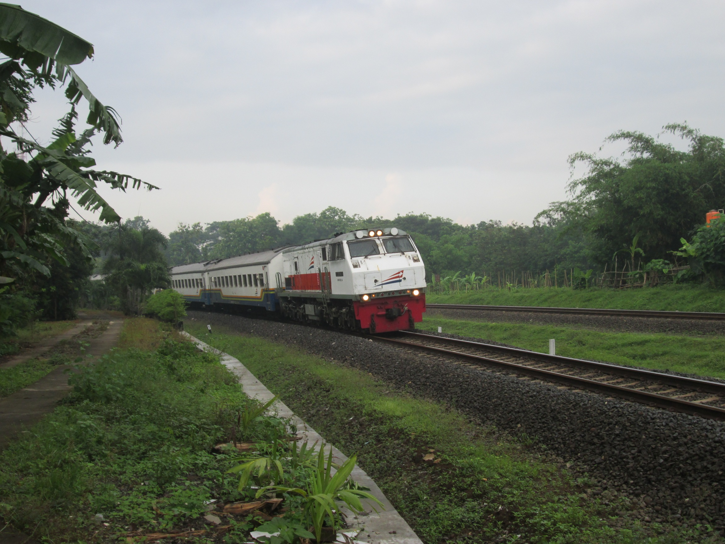 The diesel-electric locomotive CC203 98 08 hauling Senja Utama Solo will pass the Progo BridgeBahasa Indonesia: CC203 98 08 menarik kereta api Senja Utama Solo akan menyeberang Jembatan Progo.